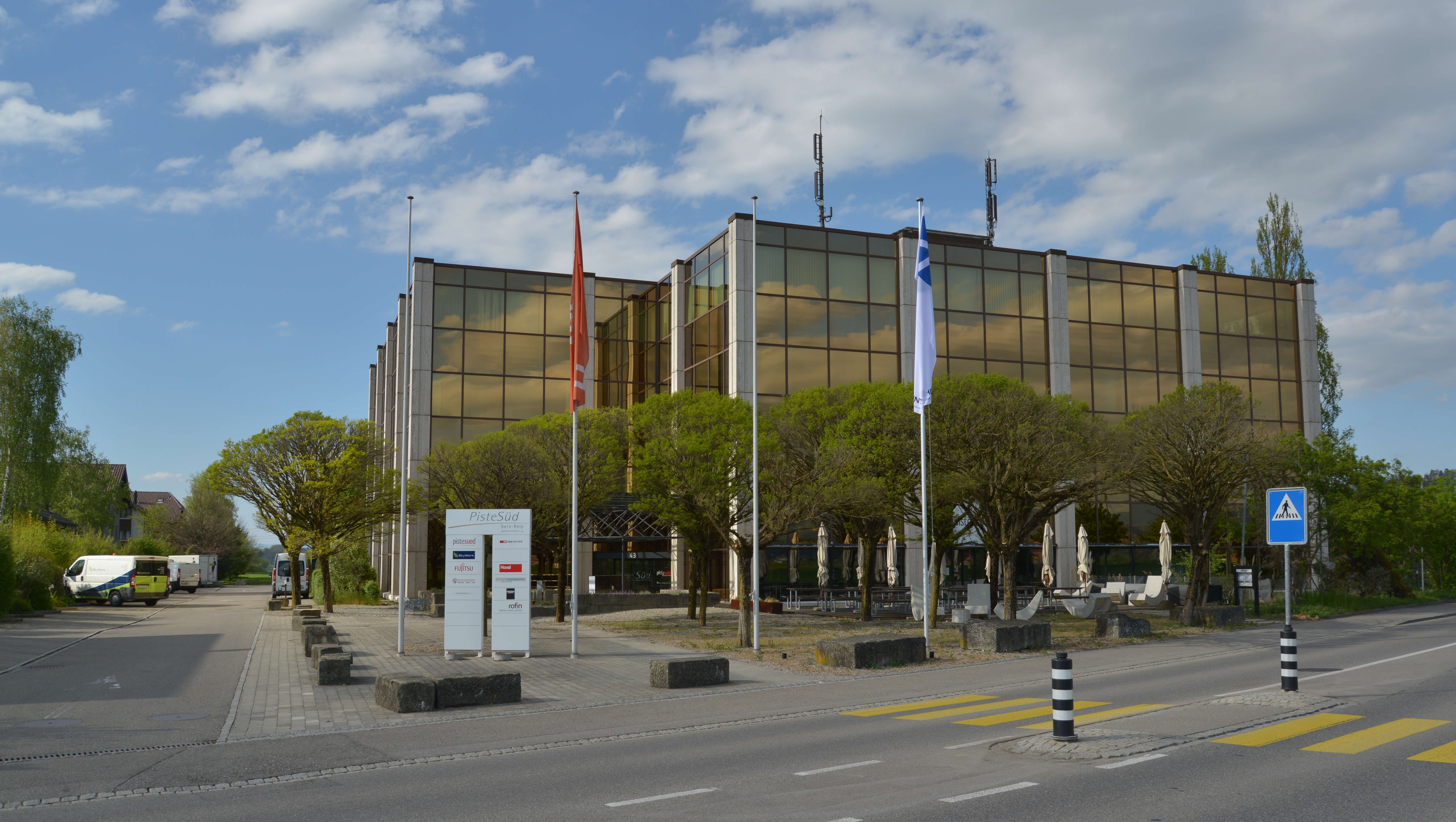 Head office of SkyWork Airlines, outside view Aemmenmattstrasse 43, CH-3123 Bern-Belp